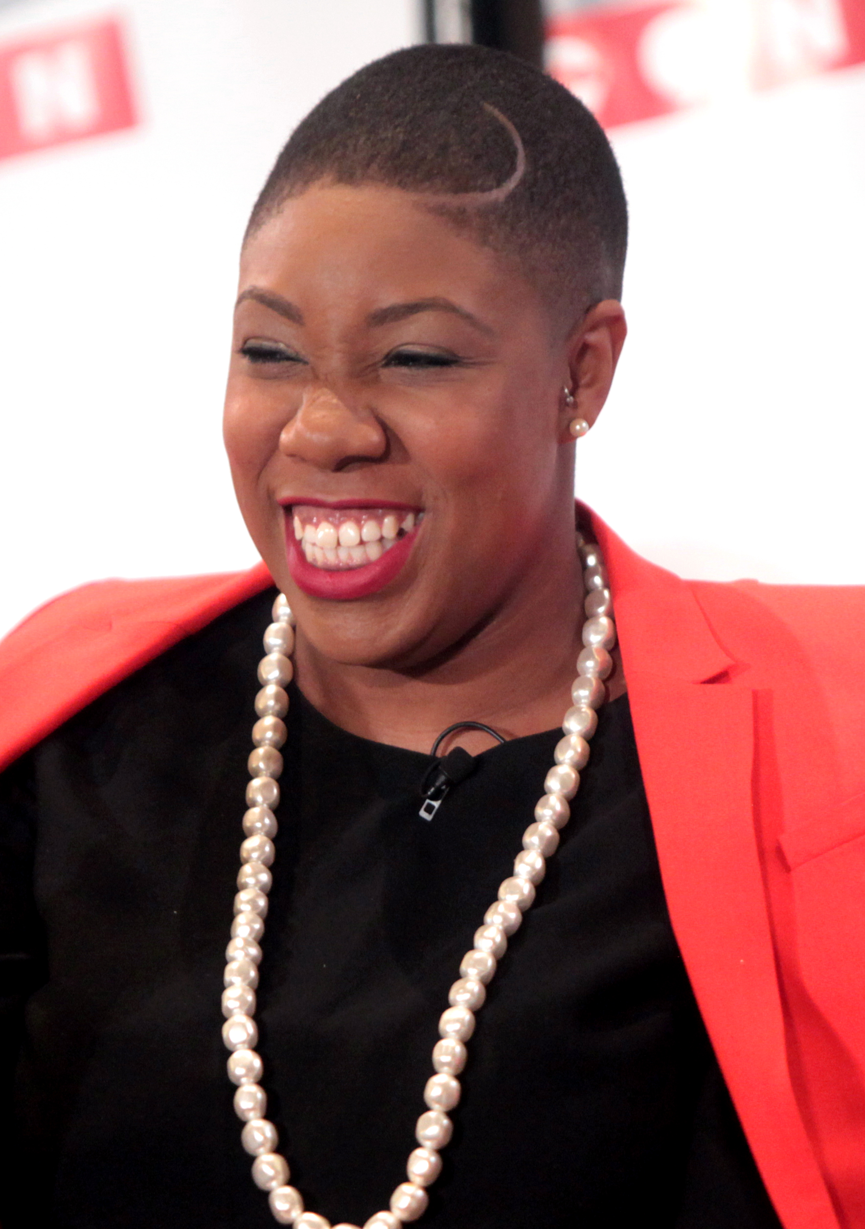 Symone Sanders speaking at Politicon in Pasadena, California.